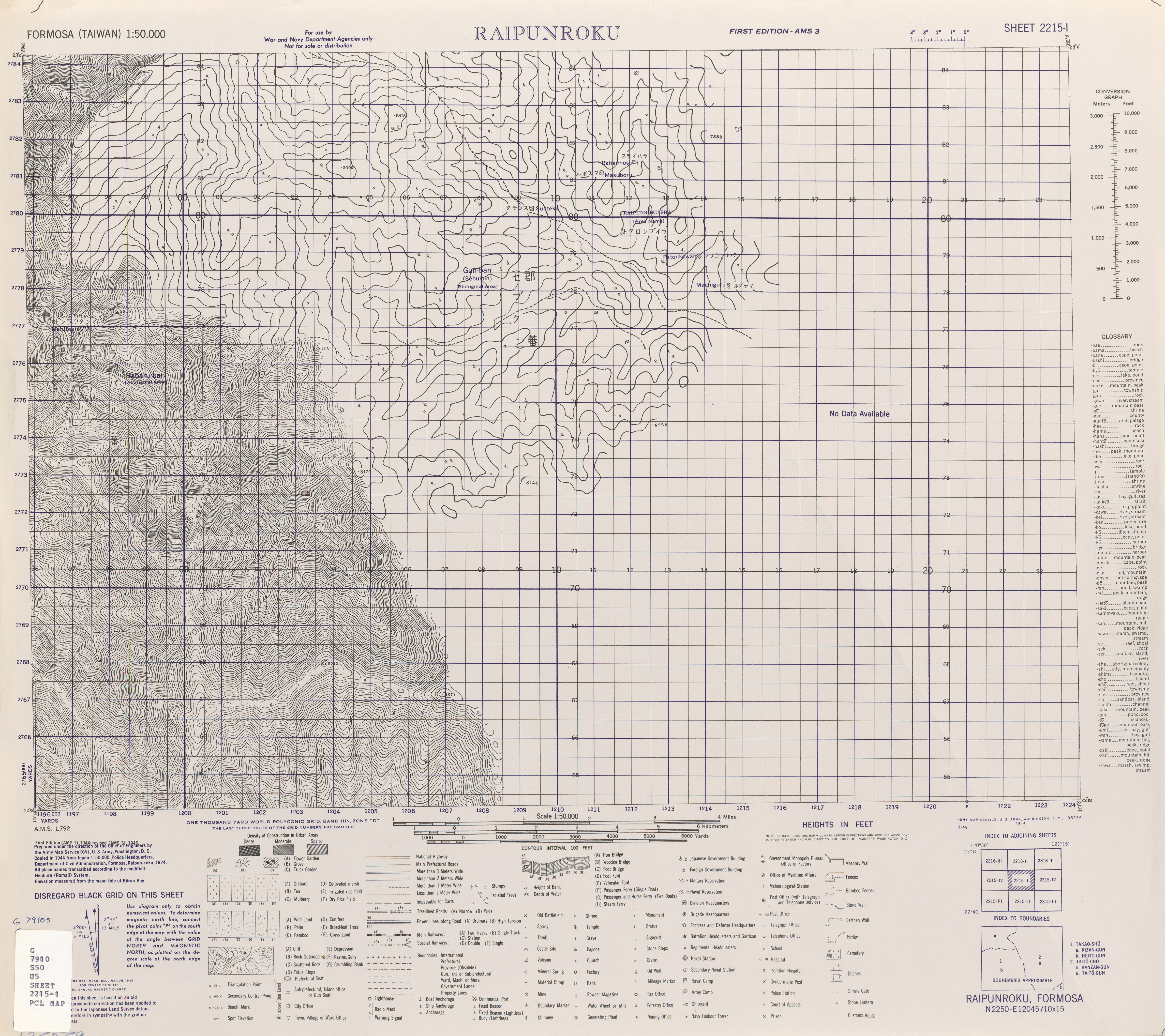 Map from Formosa (Taiwan) 1:50,000 AMS Series L792